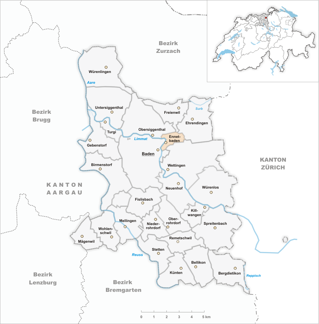 Municipality Ennetbaden